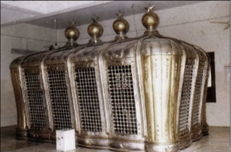 Zarih of Al-Baqi' before Demolition by the Wahhabis in 1925.